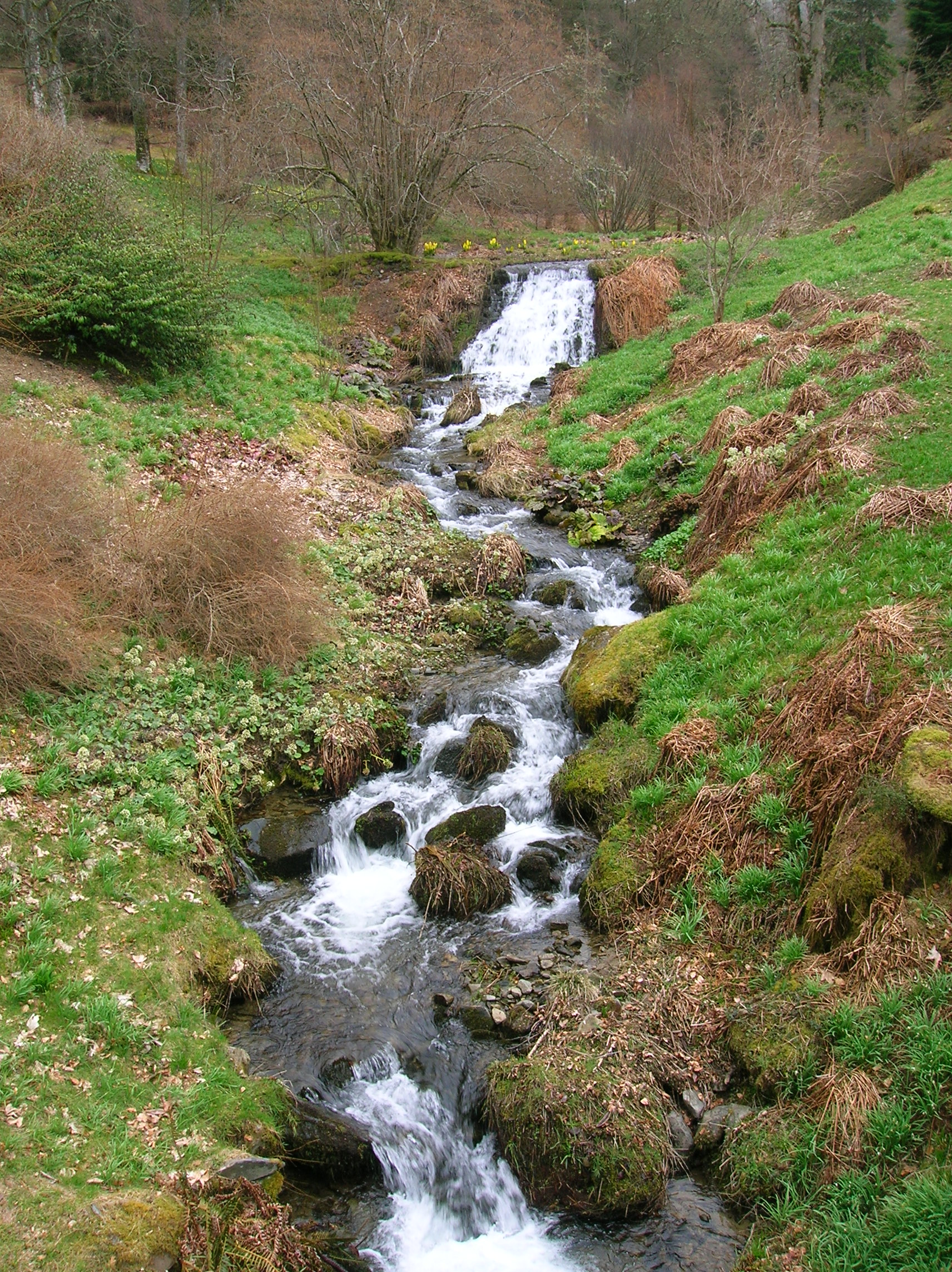 The Scrape Burn running through the Dawyck Botanic Gardens, Stobo Parish, Borders, Scotland.